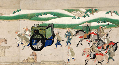 The author of the Sarashina nikki is going to the temple.